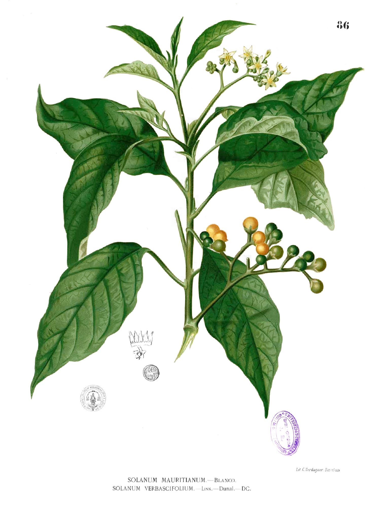 Plate from book